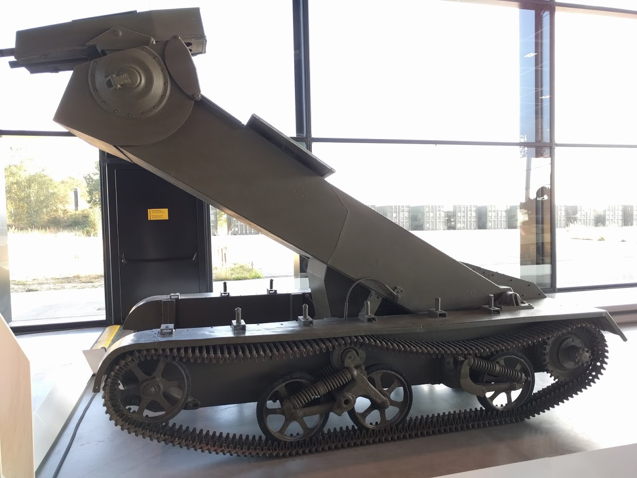 Praying Mantis in the Dutch National Military Museum.